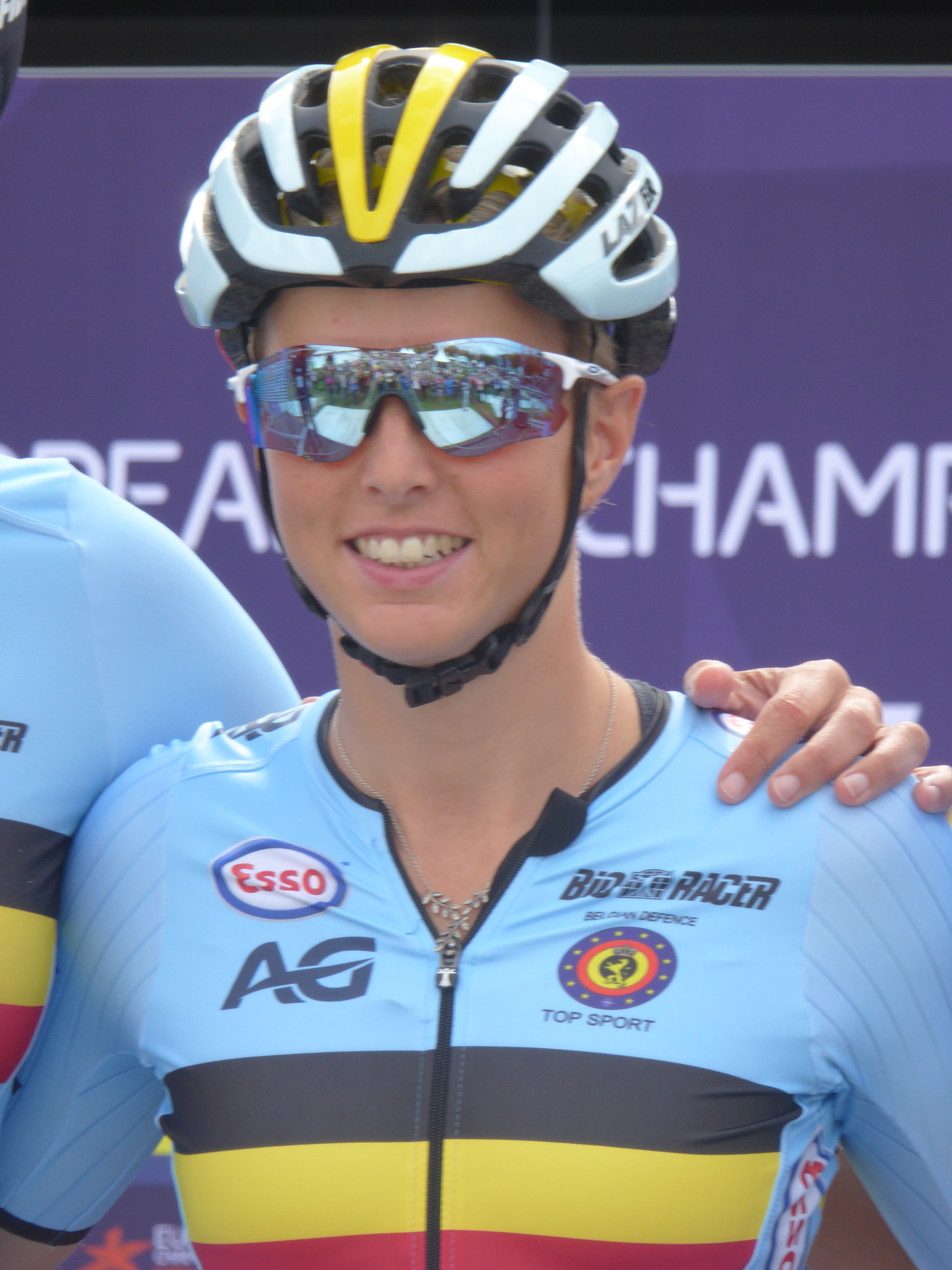 Kaat Hannes (Belgium), prior to the women's road race at the 2018 UEC European Road Cycling Championships in Glasgow.